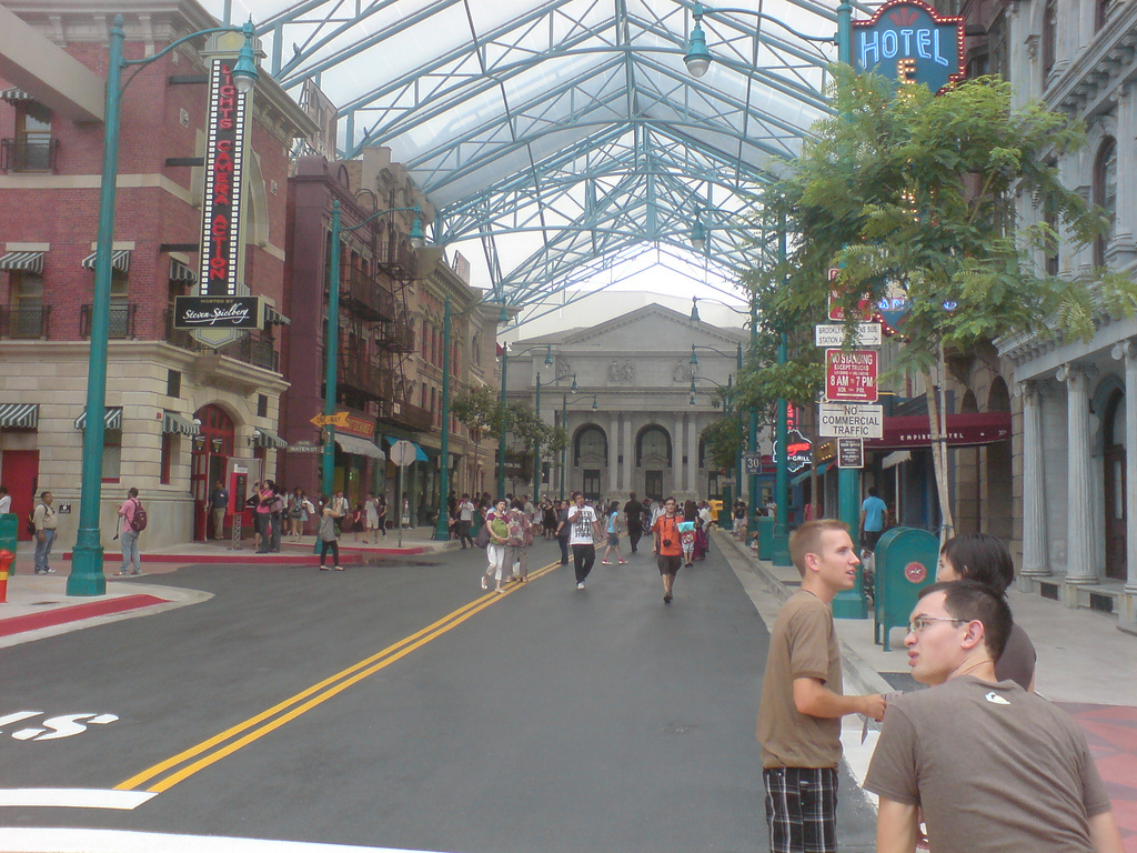 New York area at Universal Studios Singapore